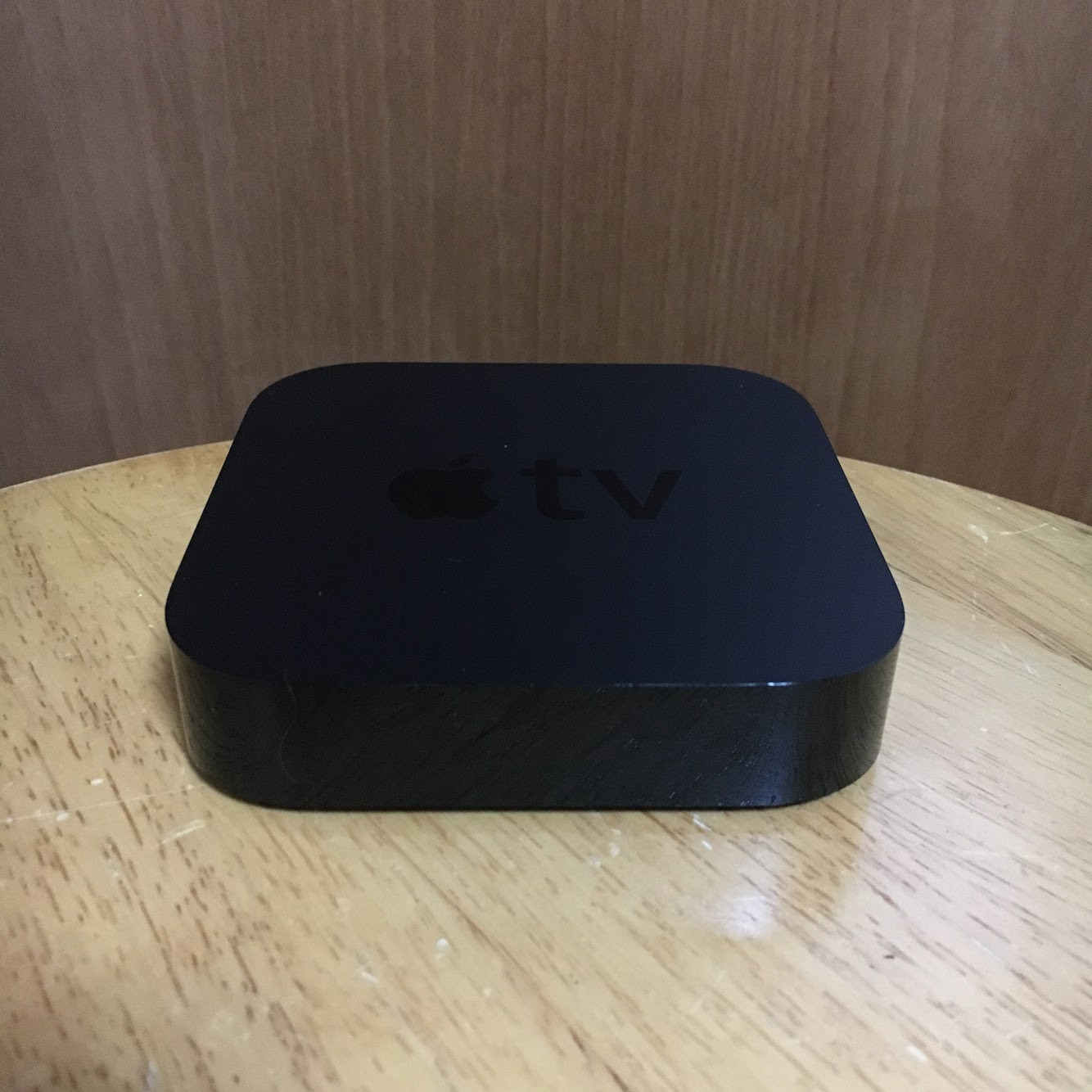 front view of 3rd generation Apple TV